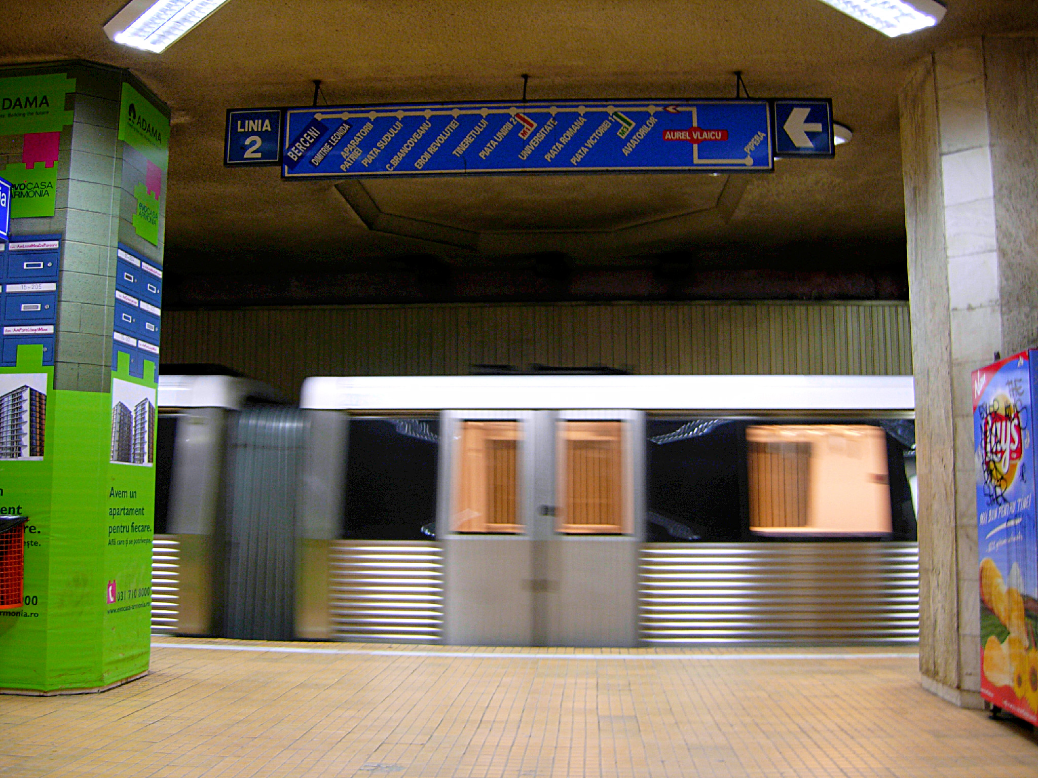 Aurel Vlaicu metro station Bucharest Metro